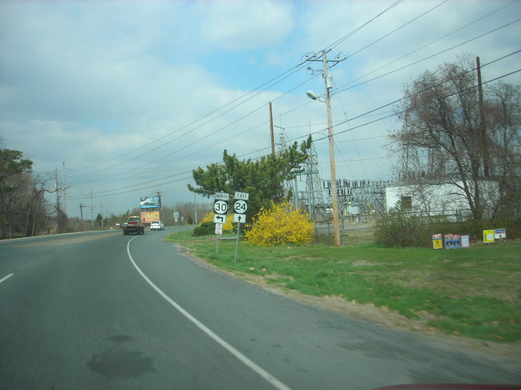 Delaware Route 24 eastbound/Delaware Route 30 northbound approaching split in Millsboro